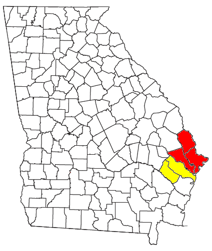 Locator map of the Savannah-Hinesville-Fort Stewart Combined Statistical Area in the southeastern part of the U.S. state of Georgia. The two components of the CSA are colored separately: Savannah Metropolitan Statistical Area: red Hinesville-Fort Stewart Metropolitan Statistical Area: yellow